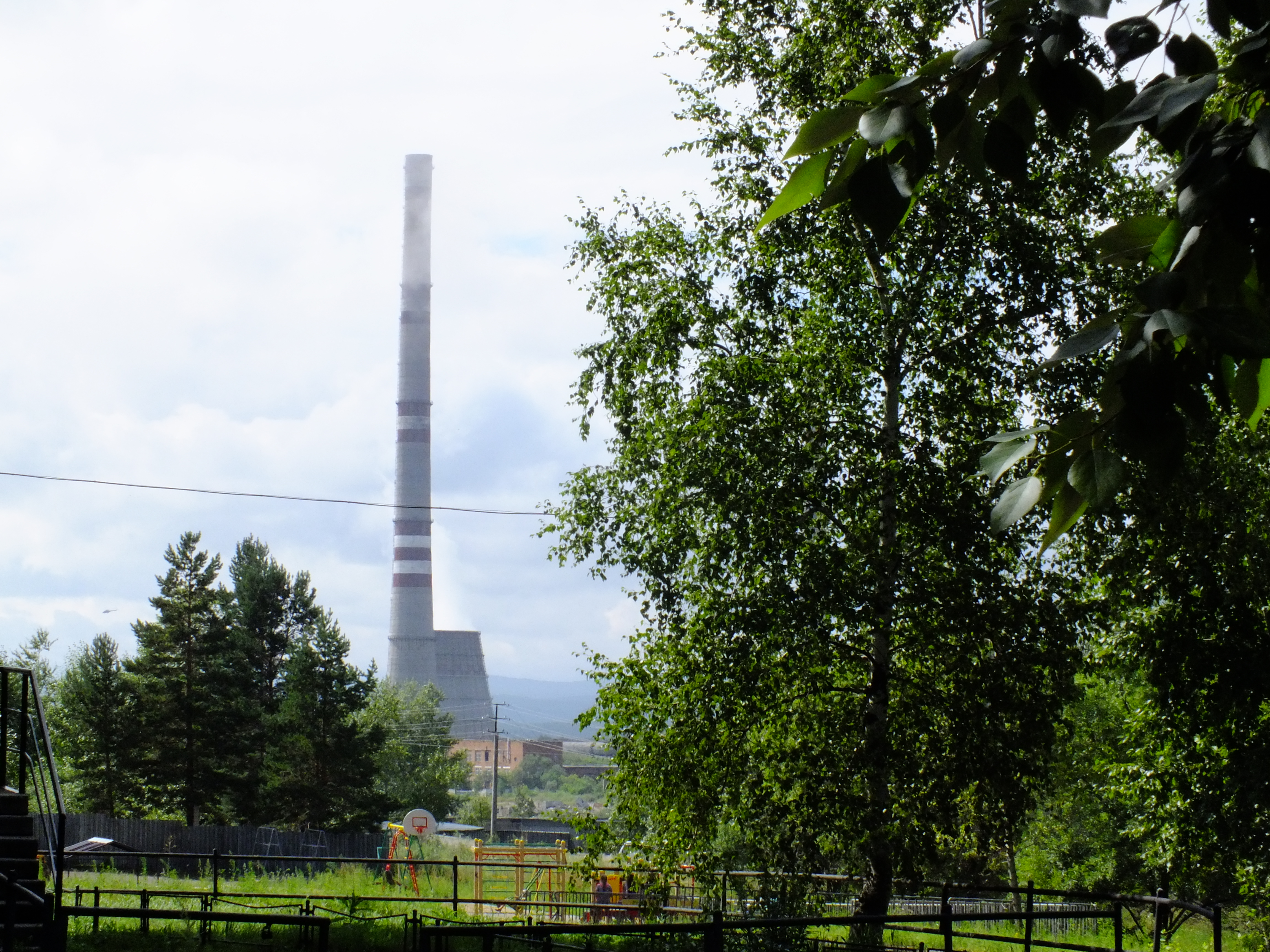 Amursk